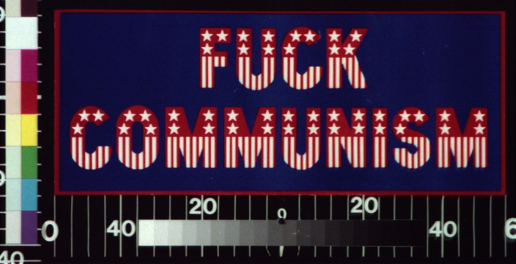 Title: Fuck communism Abstract: 1 print ; (poster format)